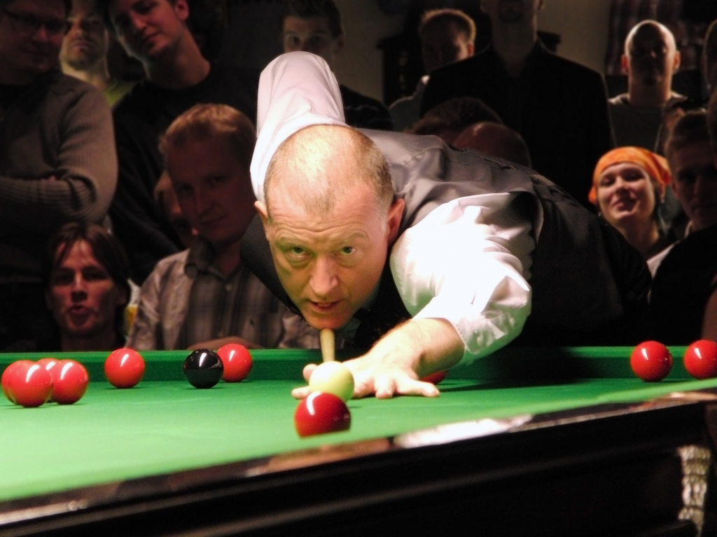 Steve Davis at Sports Club Turku in Finland during a match against Ville Pasanen (former Finnish Champion).